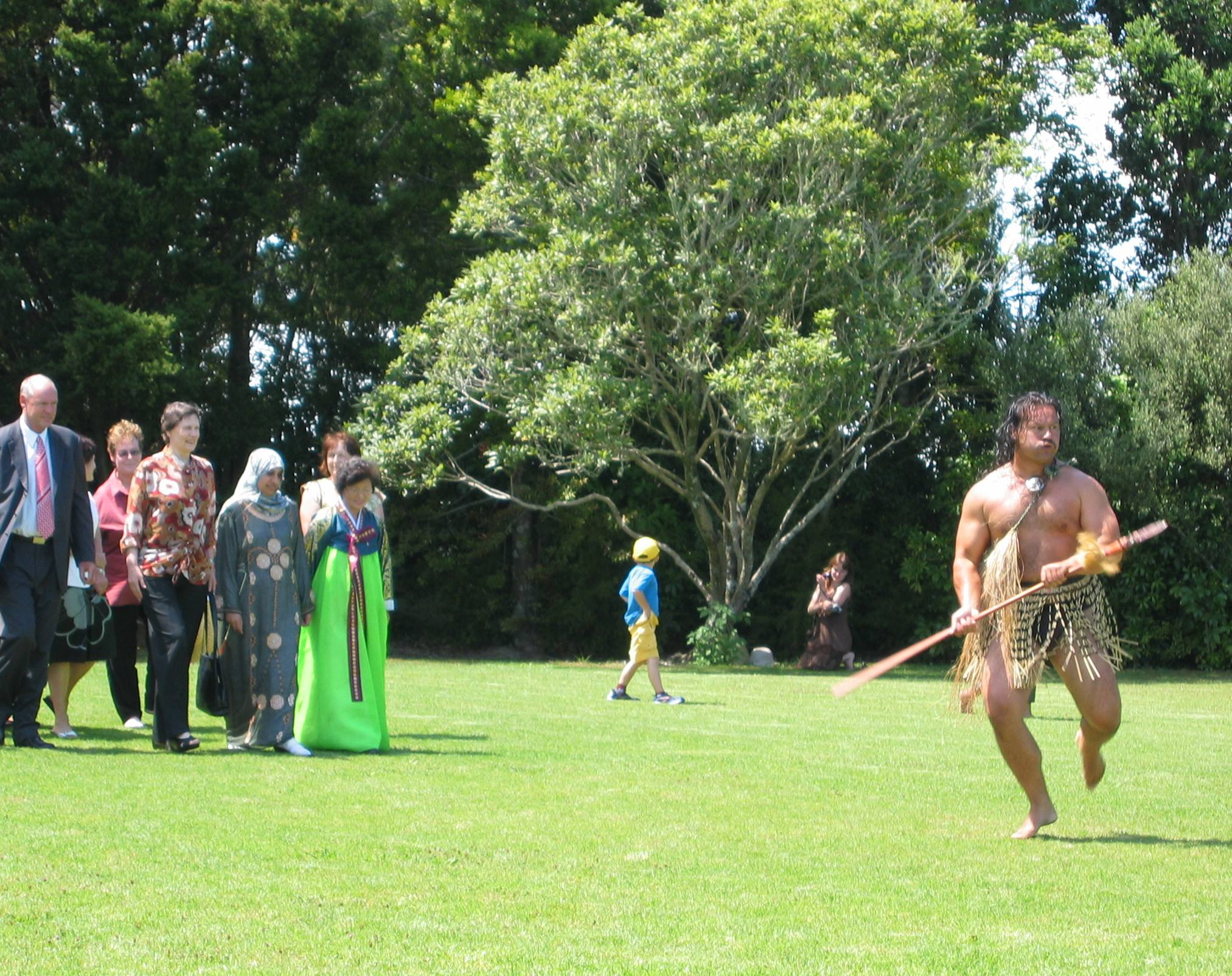 New Zealand Prime Minister Helen Clark being welcomed onto the Hoani Waititi Marae in Glen Eden, West Auckland, on Waitangi Day, 6 Feb 2006. Helen Clark is in the front row of the group at the left, wearing a patterned top and dark slacks with minister Chris Carter next to her on the far left of the photo.